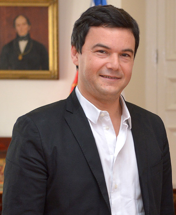 Thomas Piketty in Santiago, Chile, January 2015.